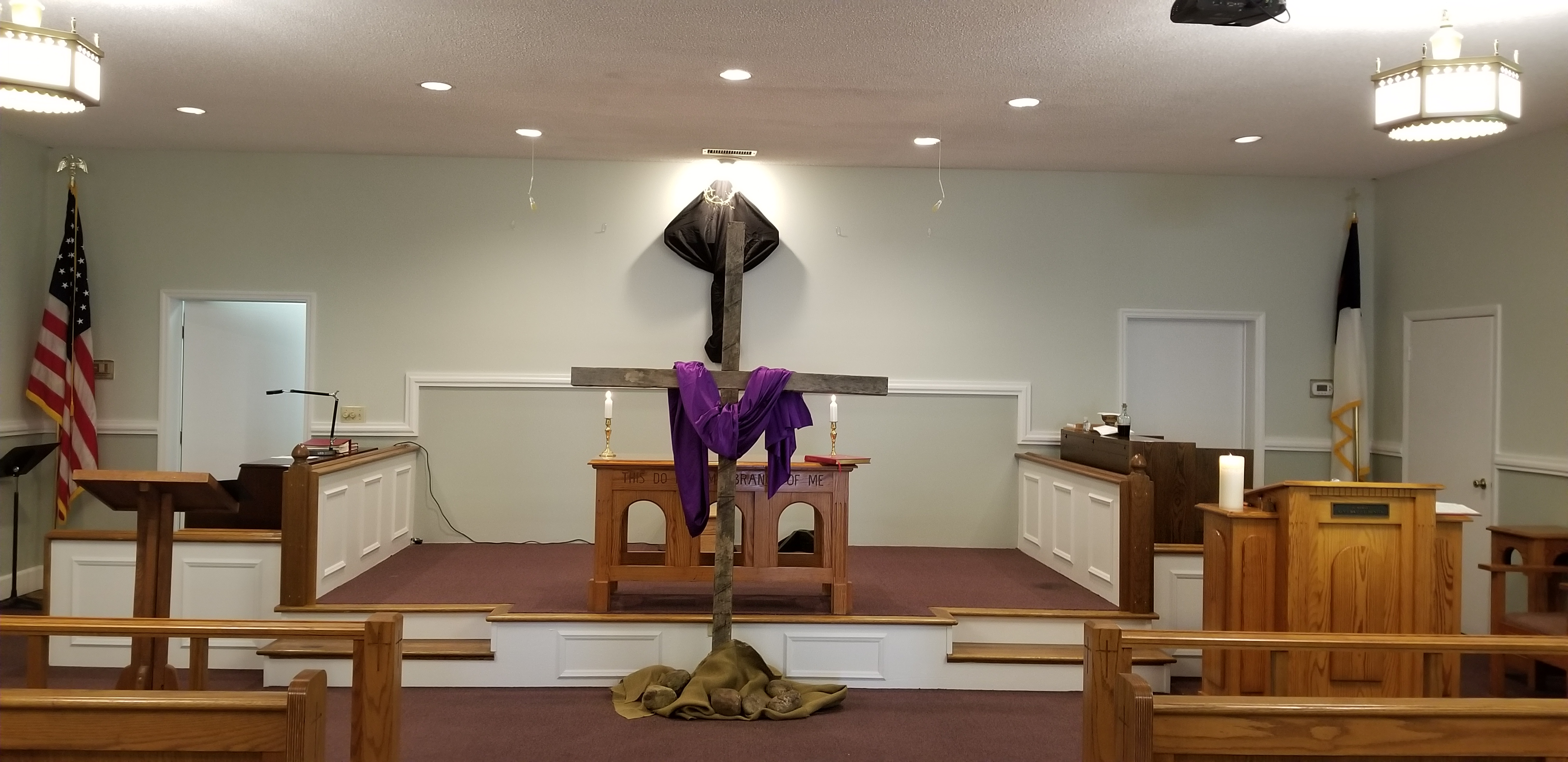 The image depicts the stripped chancel of Houston Memorial United Methodist Church on Good Friday. In front of the high altar is a crucifix for the Veneration of the Cross ceremony, which takes place in the United Methodist Good Friday liturgy.